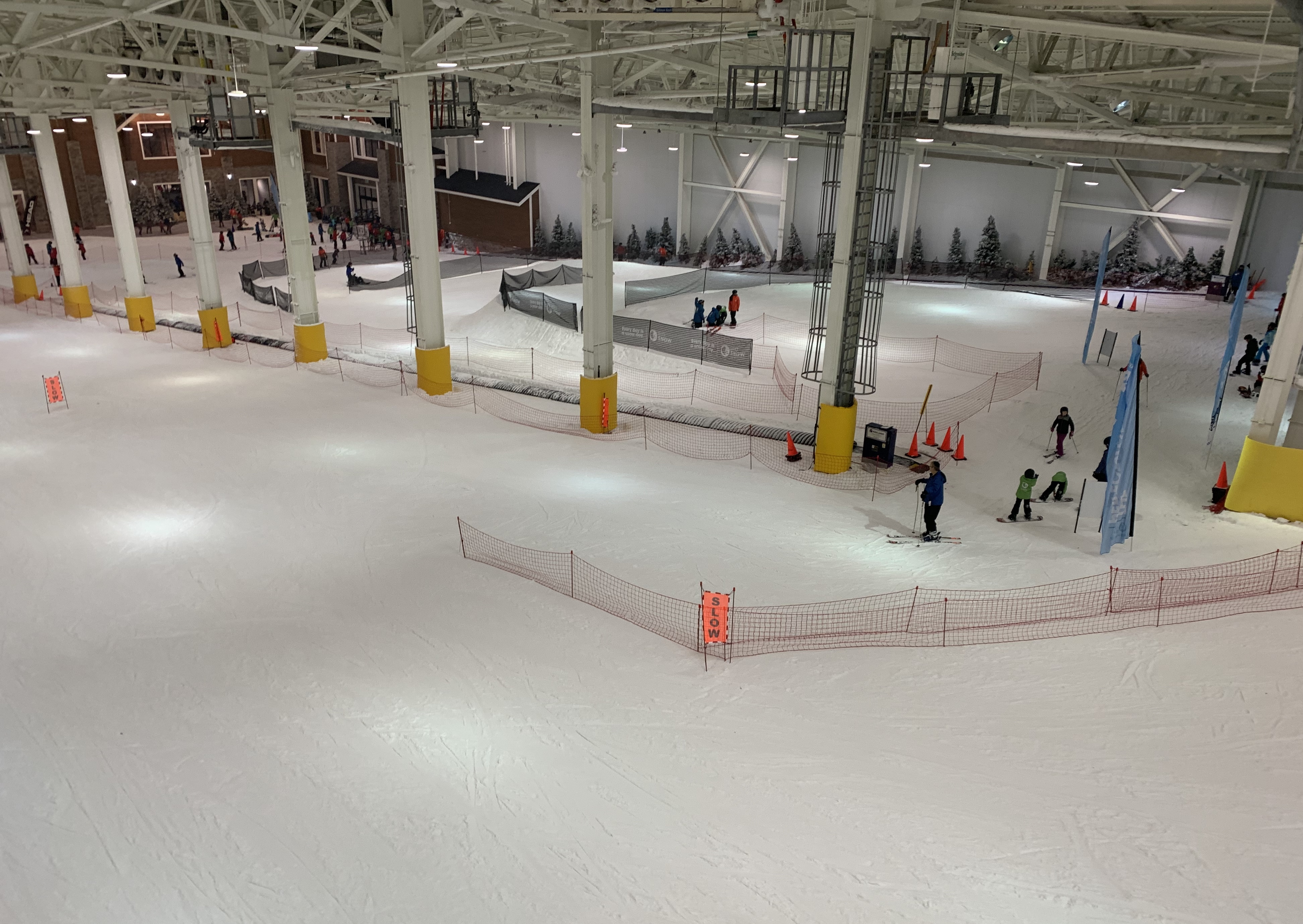 Indoor ski slope at Big Snow American Dream